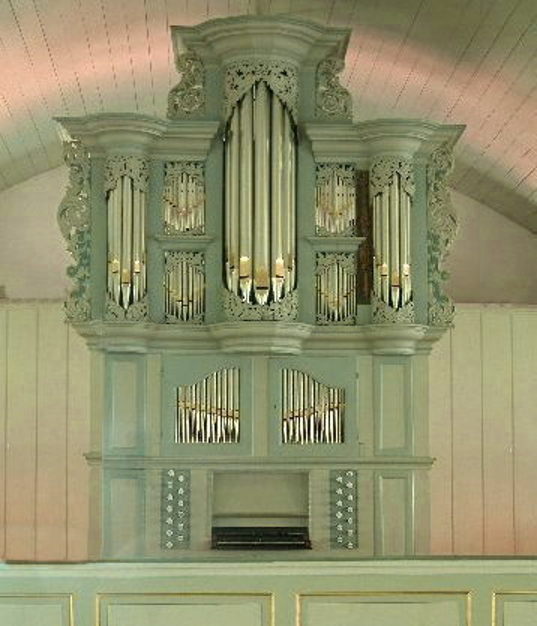 Schnitger organ Grasberg